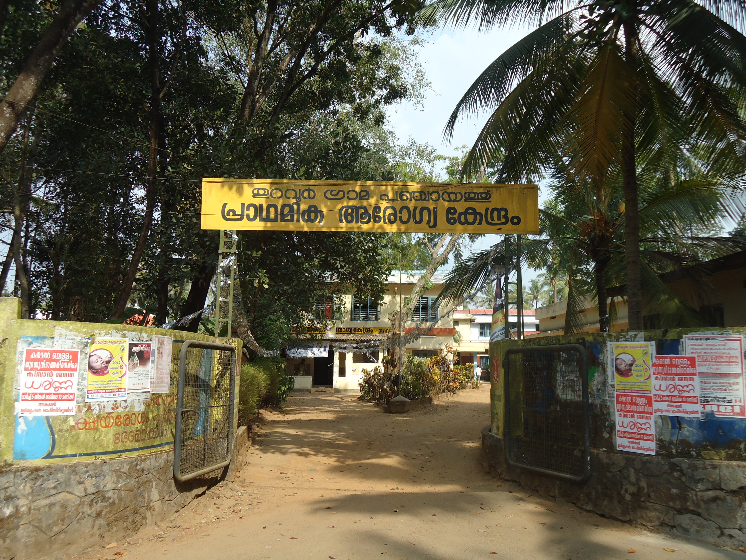 Thuravoor Primary Health Center Gate, Malaya